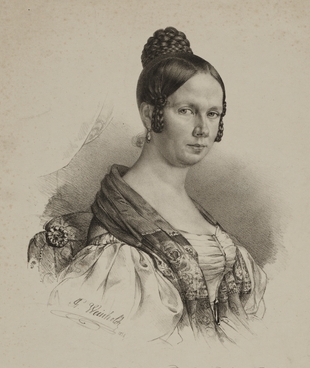 Portrait of Caroline Eichler, inventor of the first modern arm and leg prostheses.